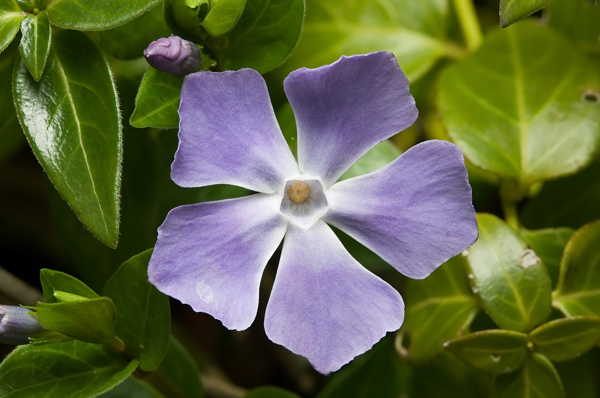 Vinca major, Austin's Ferry, Tasmania, Australia